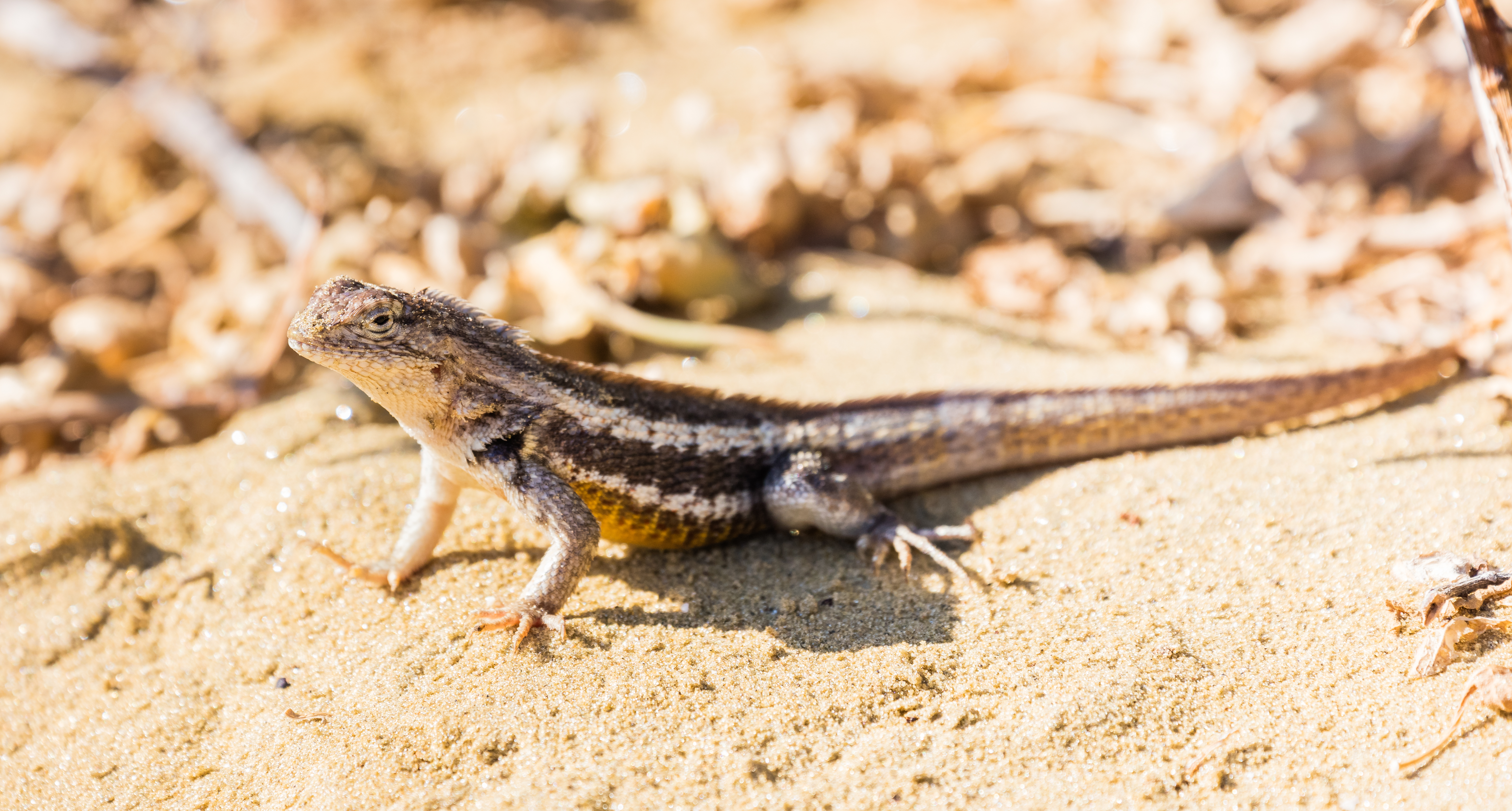 San Cristóbal lava lizard (Microlophus bivittatus), Punta Pitt, San Cristobal Island, Galapagos Islands, Ecuador